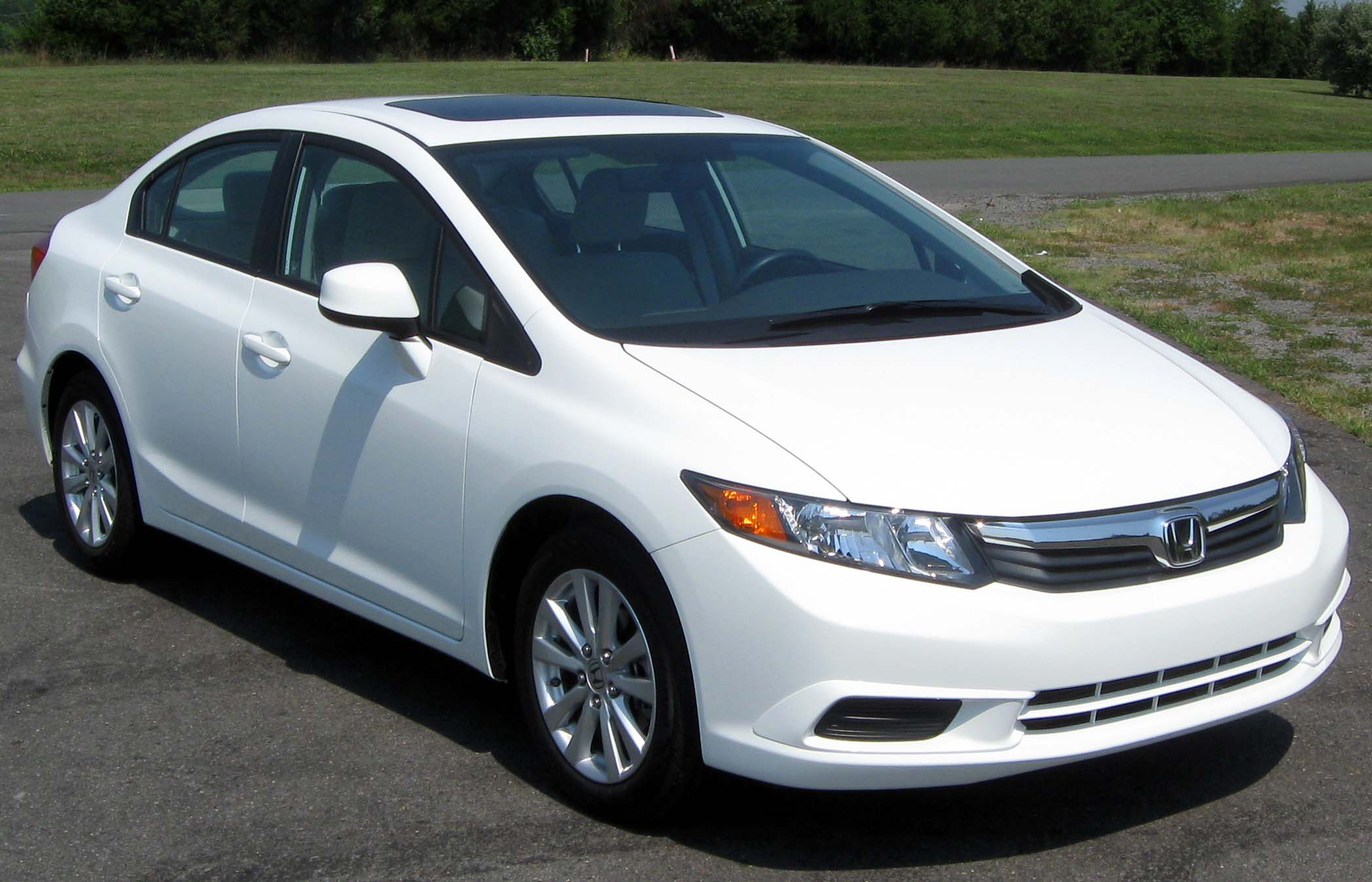 2012 Honda Civic photographed in Centreville, Virginia, USA.